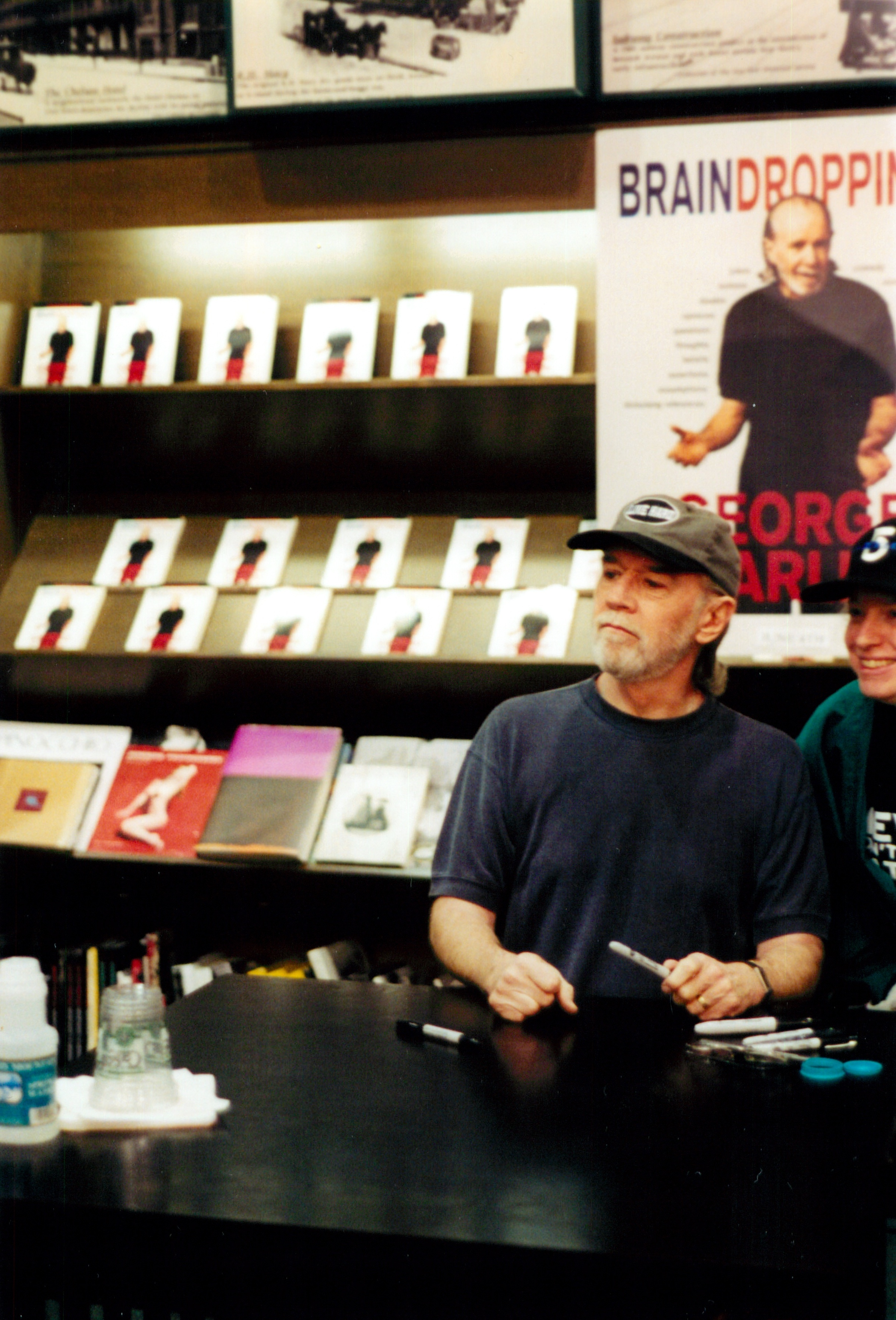 George Carlin at a book signing for Brain Droppings in New York City at Barnes and Noble